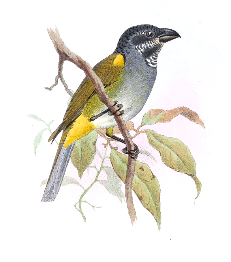 Pitylus humeralis = Parkerthraustes humeralis